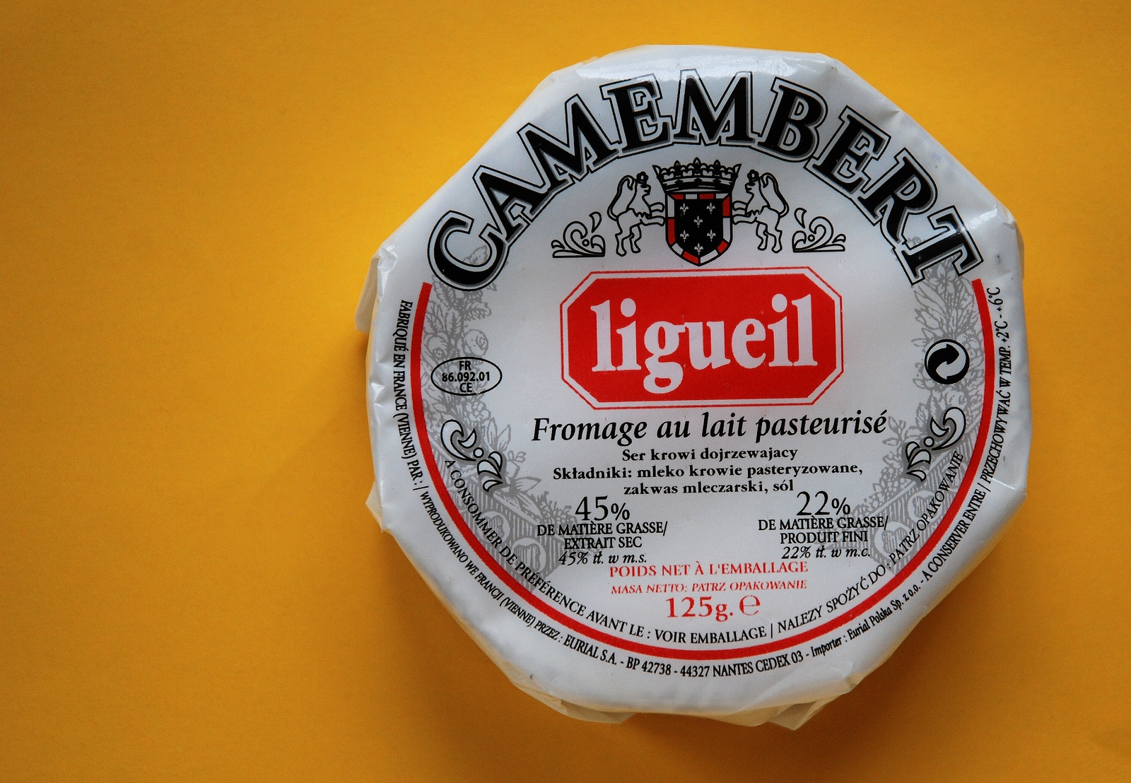 Cheese Ligueil